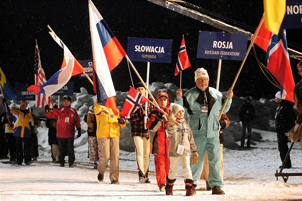 8th World Winter Polish Games in Zakopane